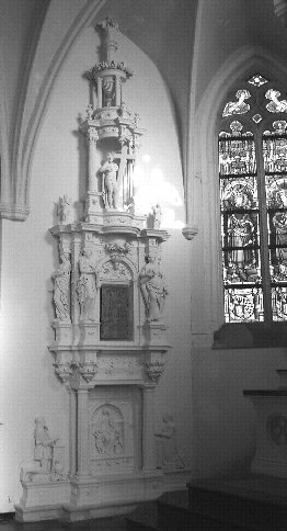 Tabernacle designed by Cornelis Floris, in the St Catherina Church in Zuurbemde, Belgium.